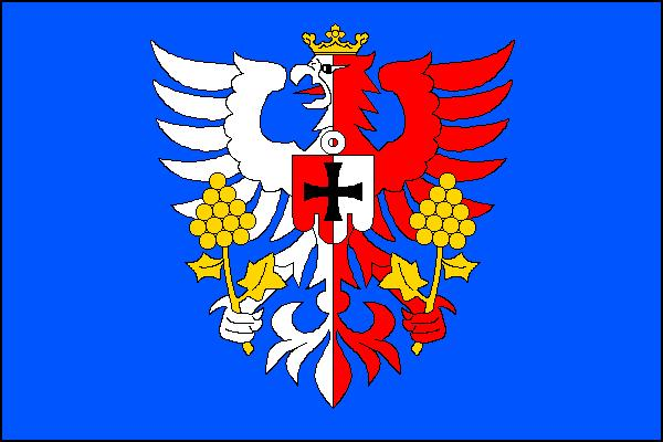 Municipal flag of Uhřice village, Hodonín District, Czech Republic.